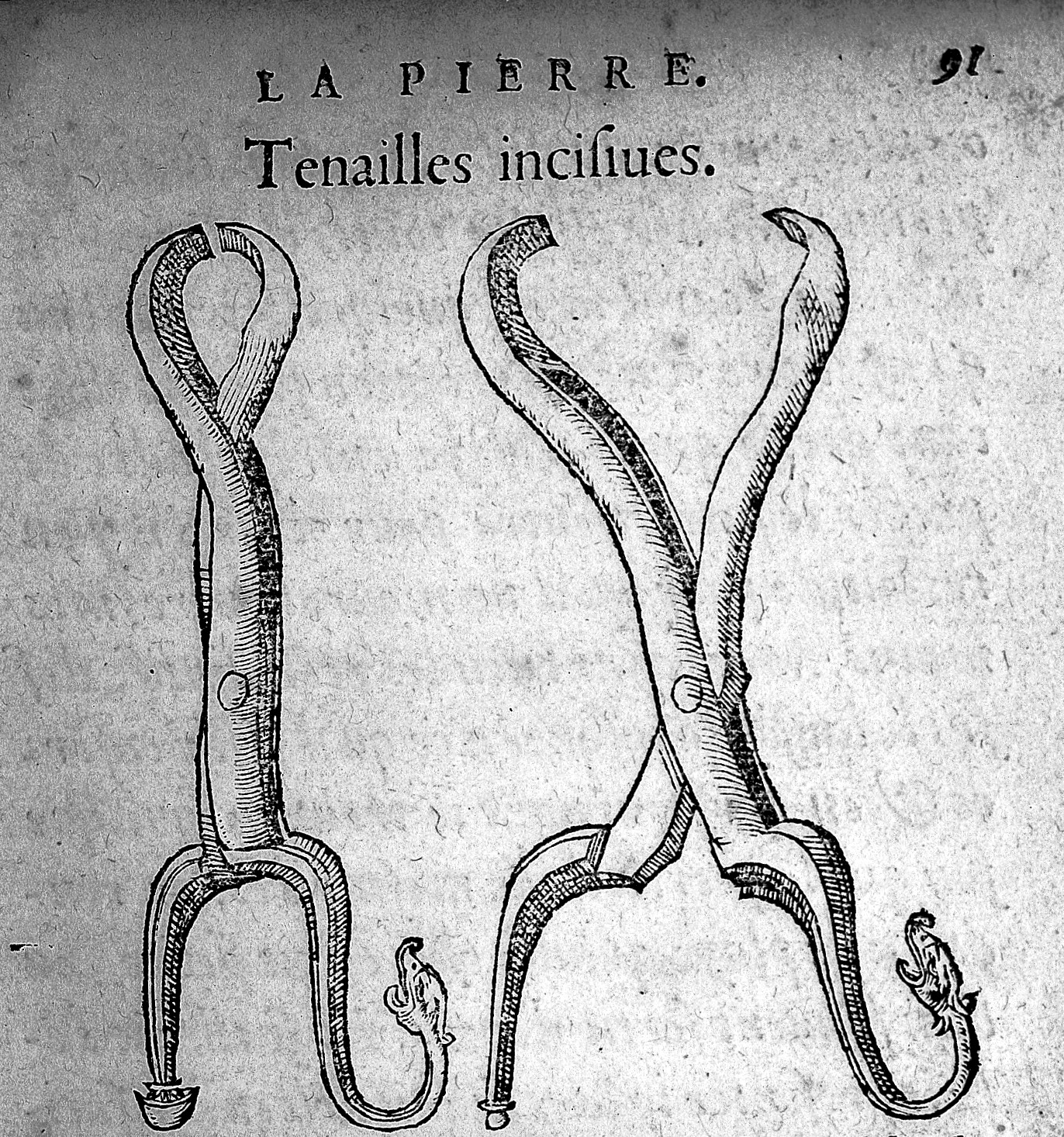 Forceps - used for stone in the bladder Rare Books Keywords: lithotomy, 16th century; surgery, 16th century; Pierre Franco